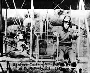 Cpl. Vernon L. Burge became the first enlisted pilot three years after the United States Army bought its first airplane. He was Lt. Benjamin Foulois' mechanic on Signal Corps airplane No. 1 at Ft. Sam Houston, Texas, in 1910, and Lt. Frank Lahm taught him to fly in the Philippines two years later. In August 1912, Burge received aviator's certificate No. 154 from the Federation Aeronautique International and also was promoted to sergeant.